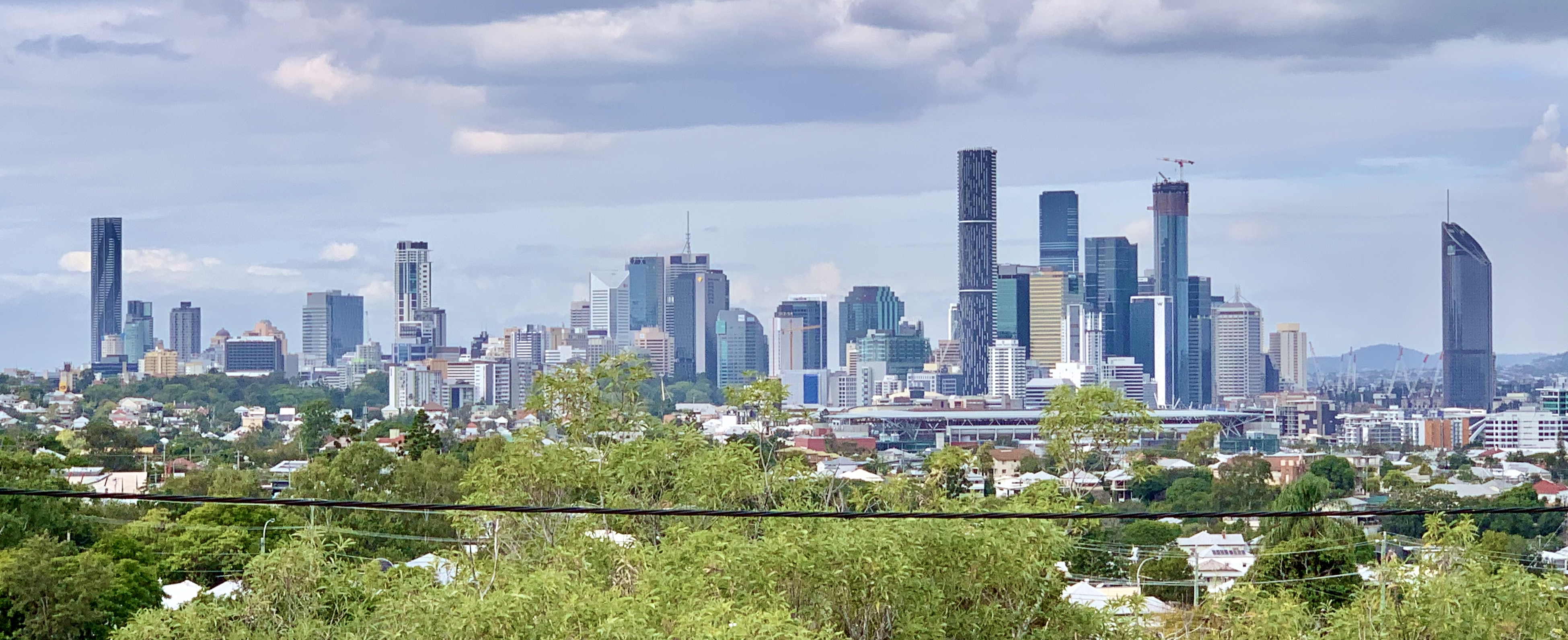 Skyline of Brisbane CBD seen from Paddington, Queensland in May 2020